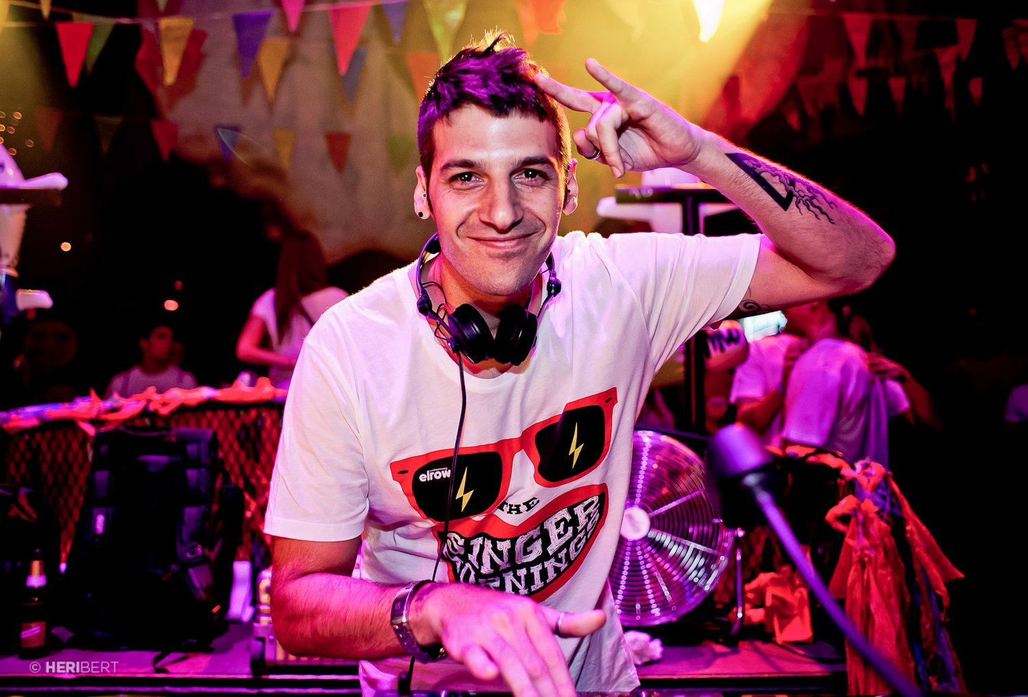 Fiesta de elrow en el club Florida 135, The Singer Morning Festival 29 de junio de 2013. En imagen, Andrés Campo, DJ residente de elrow.